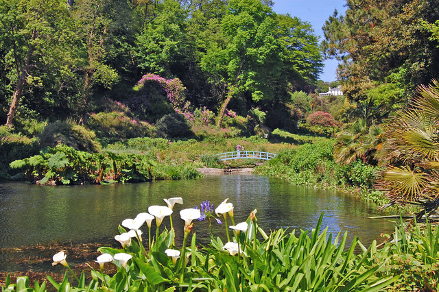 Trebah Gardens A view up the hill at Trebah Gardens, from the bottom at the far side of the lake, up towards the house.